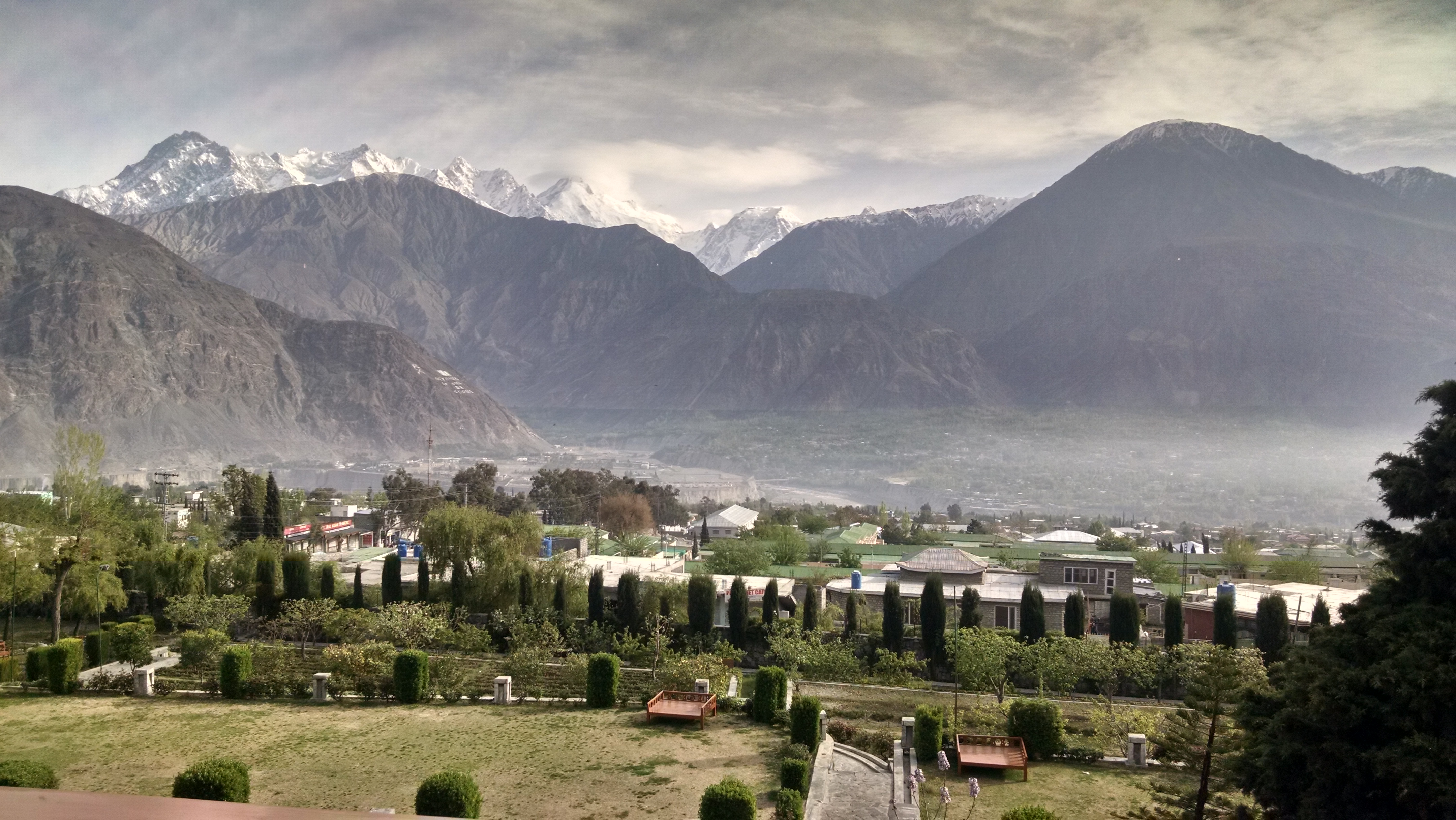 View of gilgit city from serena gilgit hotel. Gilgit Baltistan Pakistan